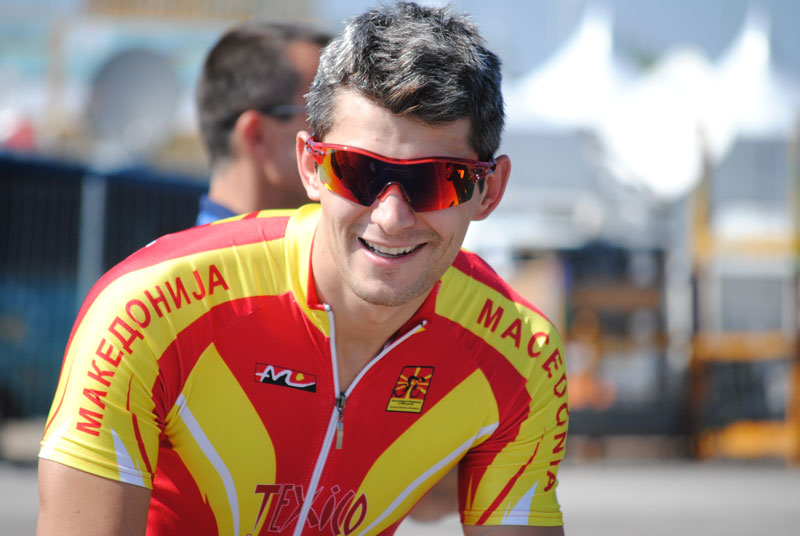 Gorgi Popstefanov at the 2014 UCI World Championships, Ponferrada 2014